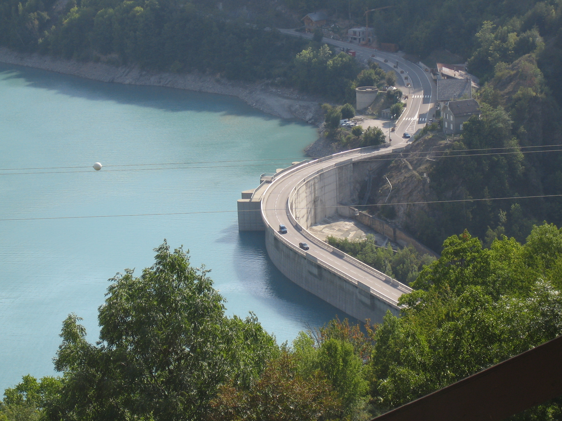 Lac du Chambon and its dam. Photo taken by User:Thbz, september 2005.